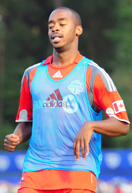 Photo of soccer player, Rohan Ricketts training.